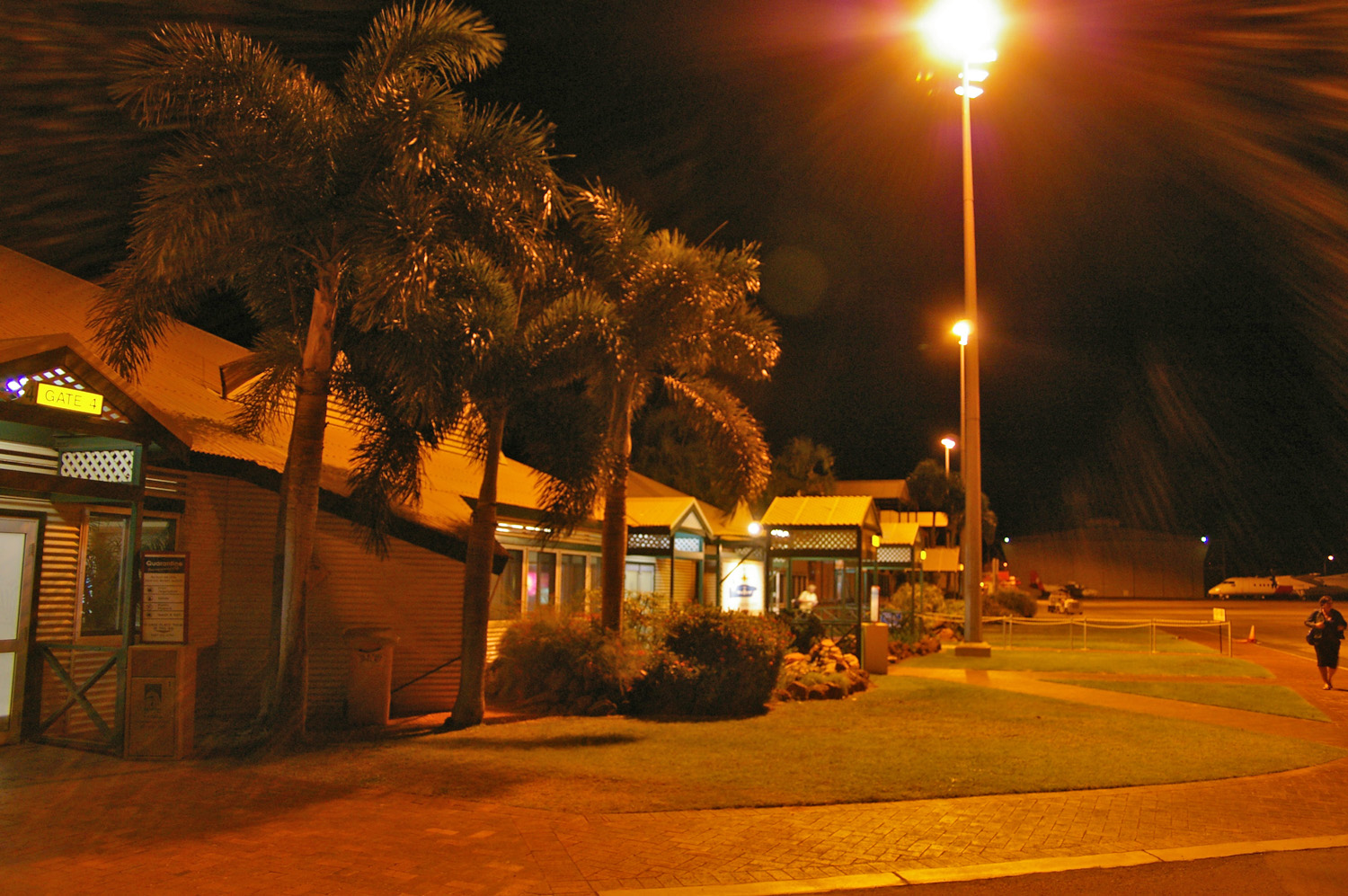 Broome International Airport